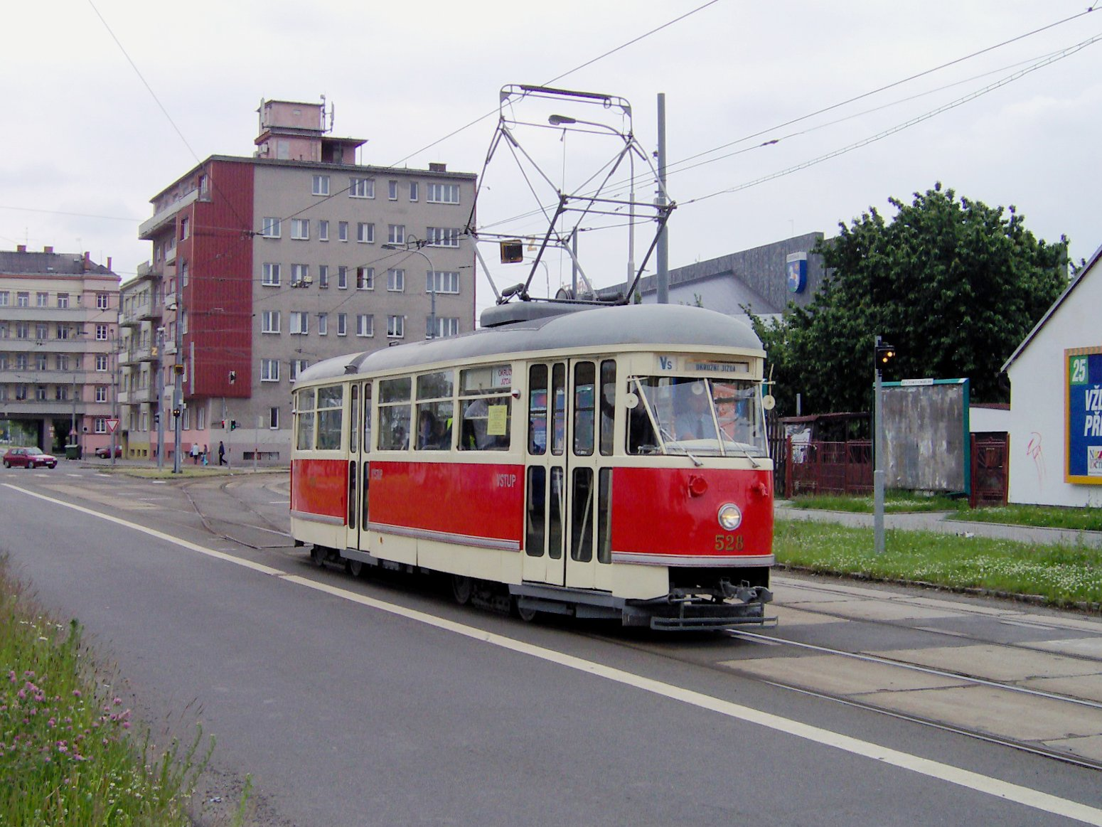 Historical T1 tram in Ostrava